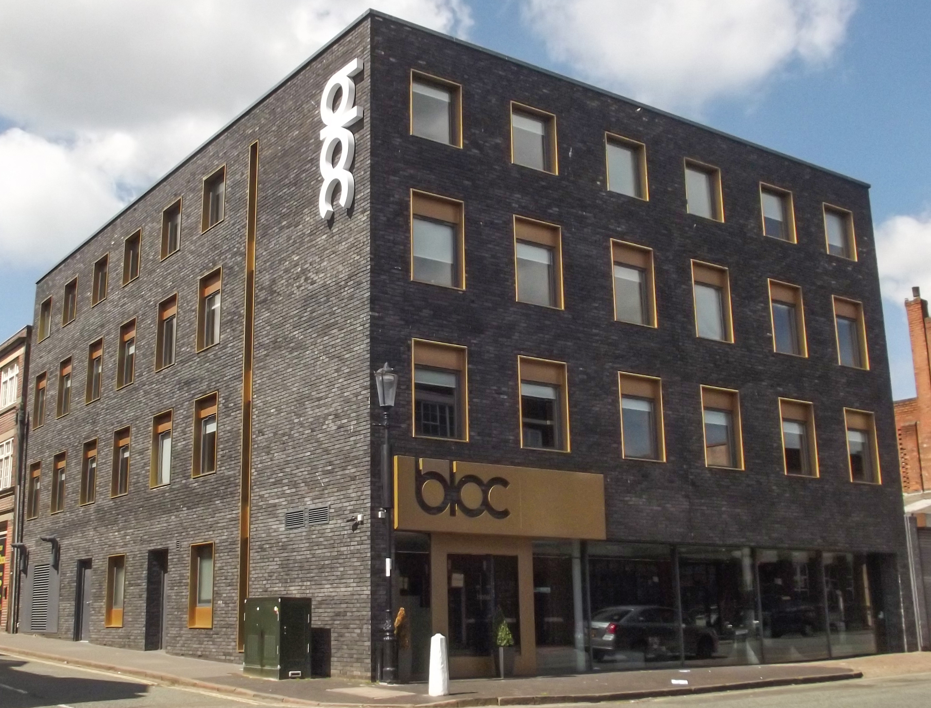 BLOC hotel on a sunny Caroline Street in the Jewellery Quarter in Birmingham. Corner with Northwood Street. It opened in 2011.